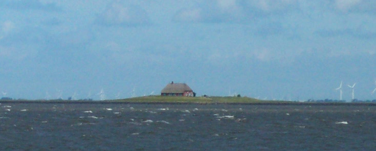 Hallig Habel, Wadden Sea of North Friesland, Germany, view from west